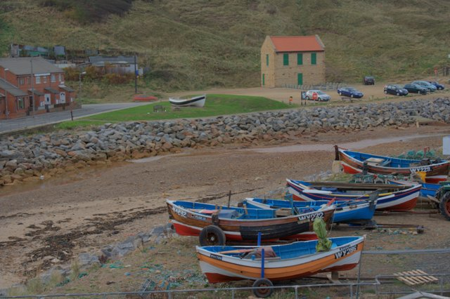 Yorkshire Cobbles Traditional Yorkshire fishing boats laid up on the beach at Skinningrove.